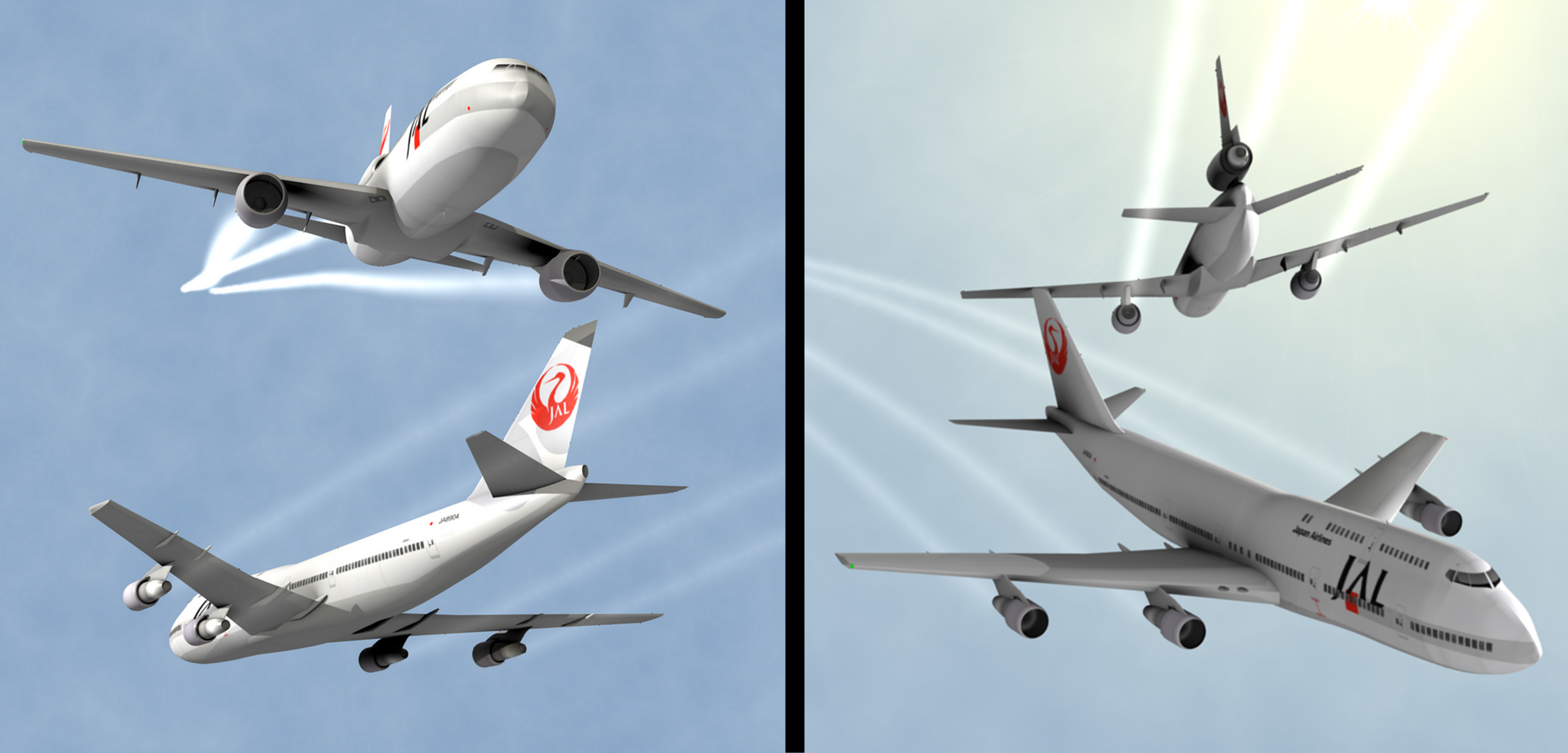 Image of the 2001 Japan Airlines mid-air incident.